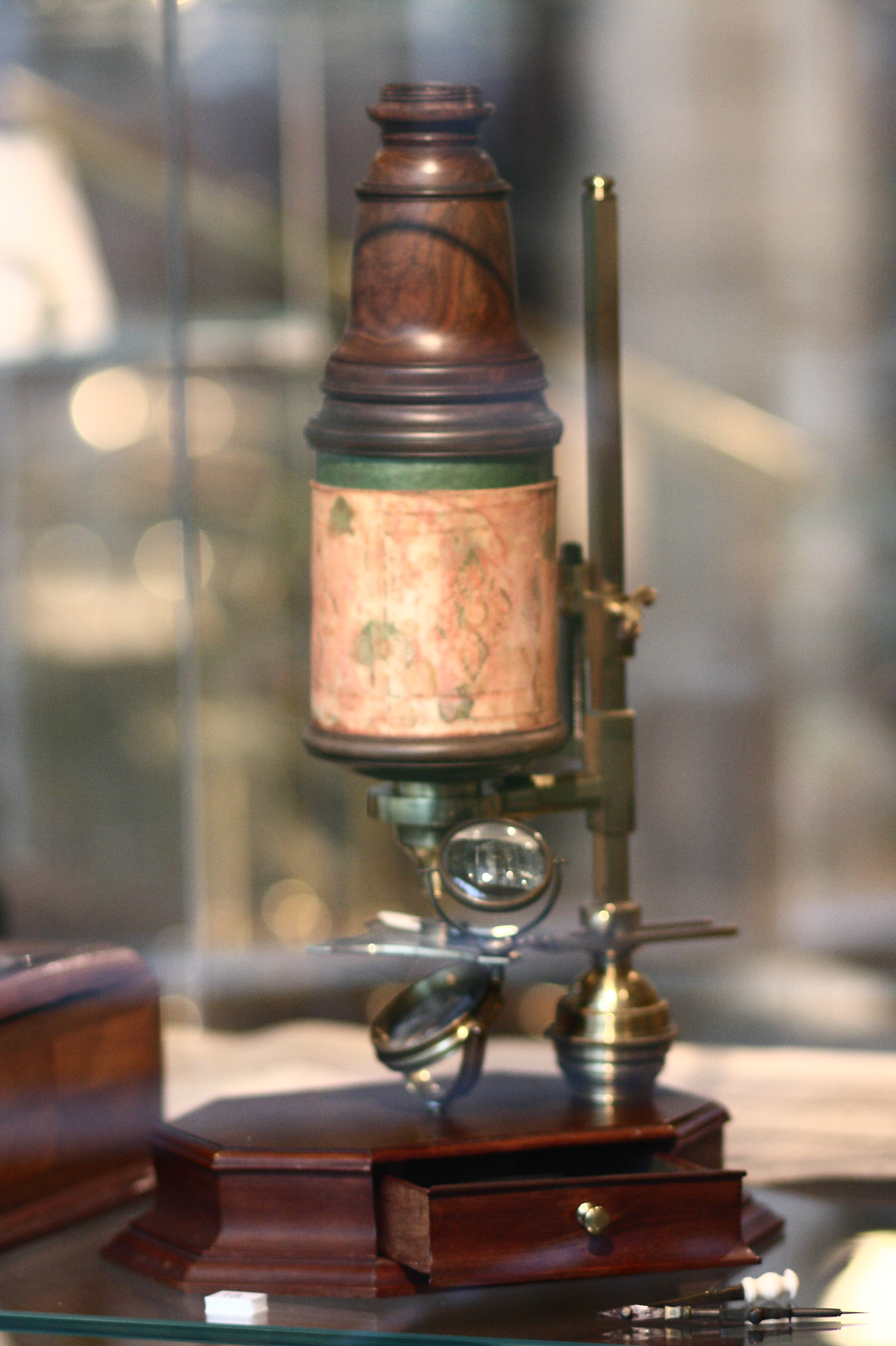 "Great Double" compound microscope made by John Marshall in London circa 1693, on display at the Putnam Gallery in the Harvard Science Center